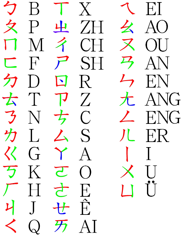 Stroke order of the Bopomofos. using Photoshop. We are making this kind of picture following the protocole of the section : Commons:CJK stroke order:Tutorialscontains only 37 characters U+3105 to U+3129 (U+312A to U+312D are not drawn)